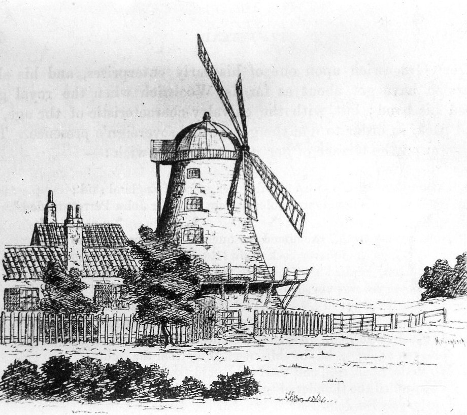 Plumstead Common Windmill, drawing by Ranwell dated 1820. Reproduced as a postcard by A H Barkway, Plumstead Common.